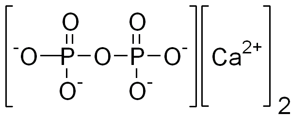 chemical structure of calcium pyrophosphate